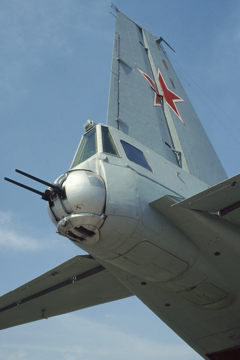 Stargard (Poland), 10 July 1992. Three An-12's, two IL-76's and one Mi-8 supported the withdrawal of the 159th Guards Fighter Aviation Regiment. Three An-12's of the 245th independent Mixed Aviation Squadron (Legnica, Poland) were on the platform: blue 16, 17 and 18.